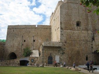 The Hospitalians' Fortress in Akko, Palestine (12-13th cent.); Utvrda Ivanovaca (Hospitalaca) u Akku (Palestine, 12.-13. st.).